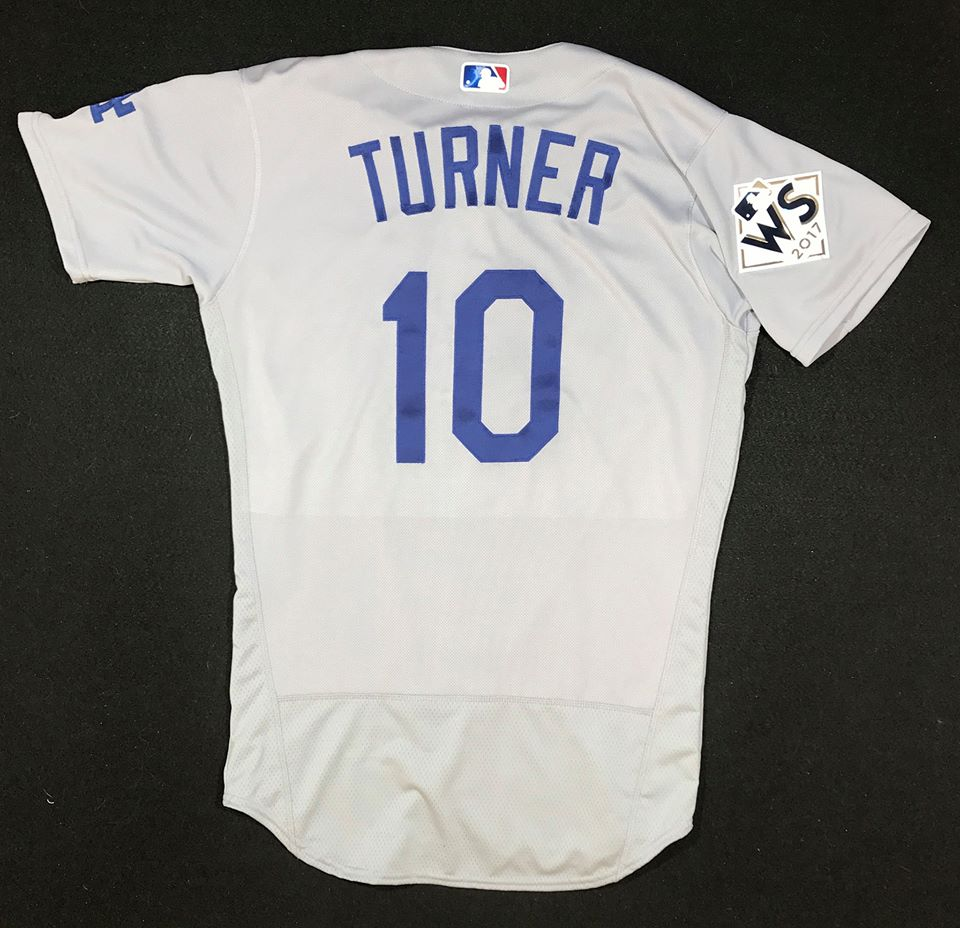 2017 Los Angeles Dodgers #10 Justin Turner World Series road jersey lettered and photographed by William F. Henderson who may be contacted through his website thedream.shop